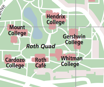 A Portion of the SBU Map displaying Roth Quad